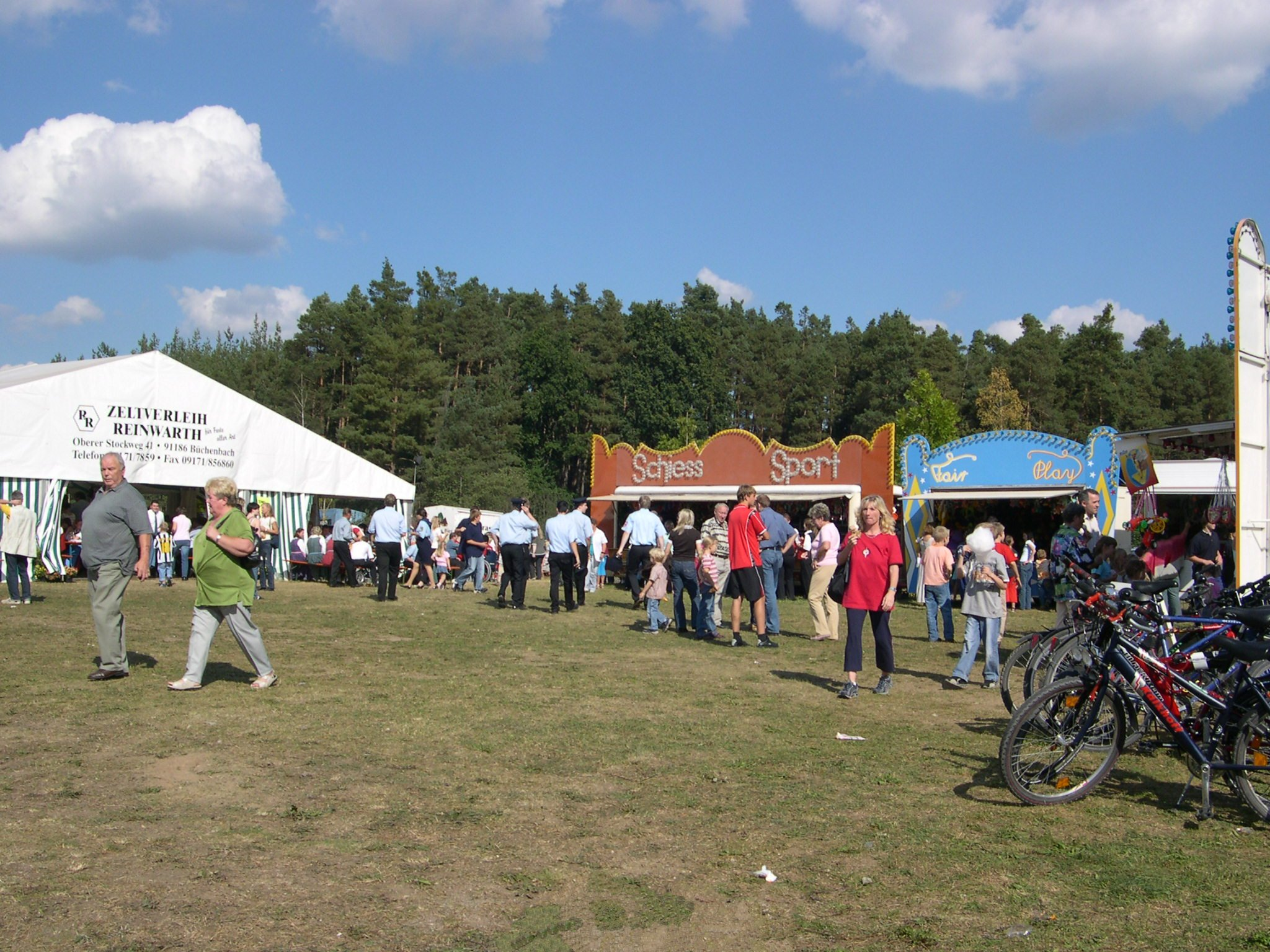 Marquee area of firemen's carnival and parade 2006 in Roth-Pruppach.